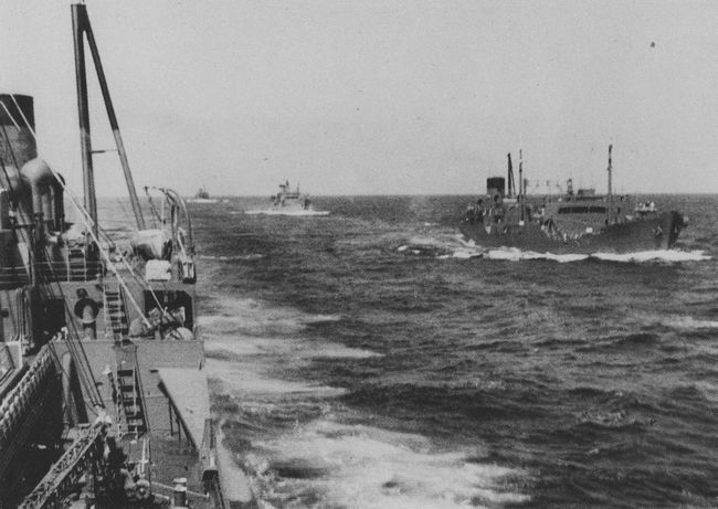 IJN aux. fleet oiler Kyokutō Maru (left), aux. oiler Kokuyō Maru, aux. oiler Nippon Maru and aux. oiler Shinkoku Maru (right)